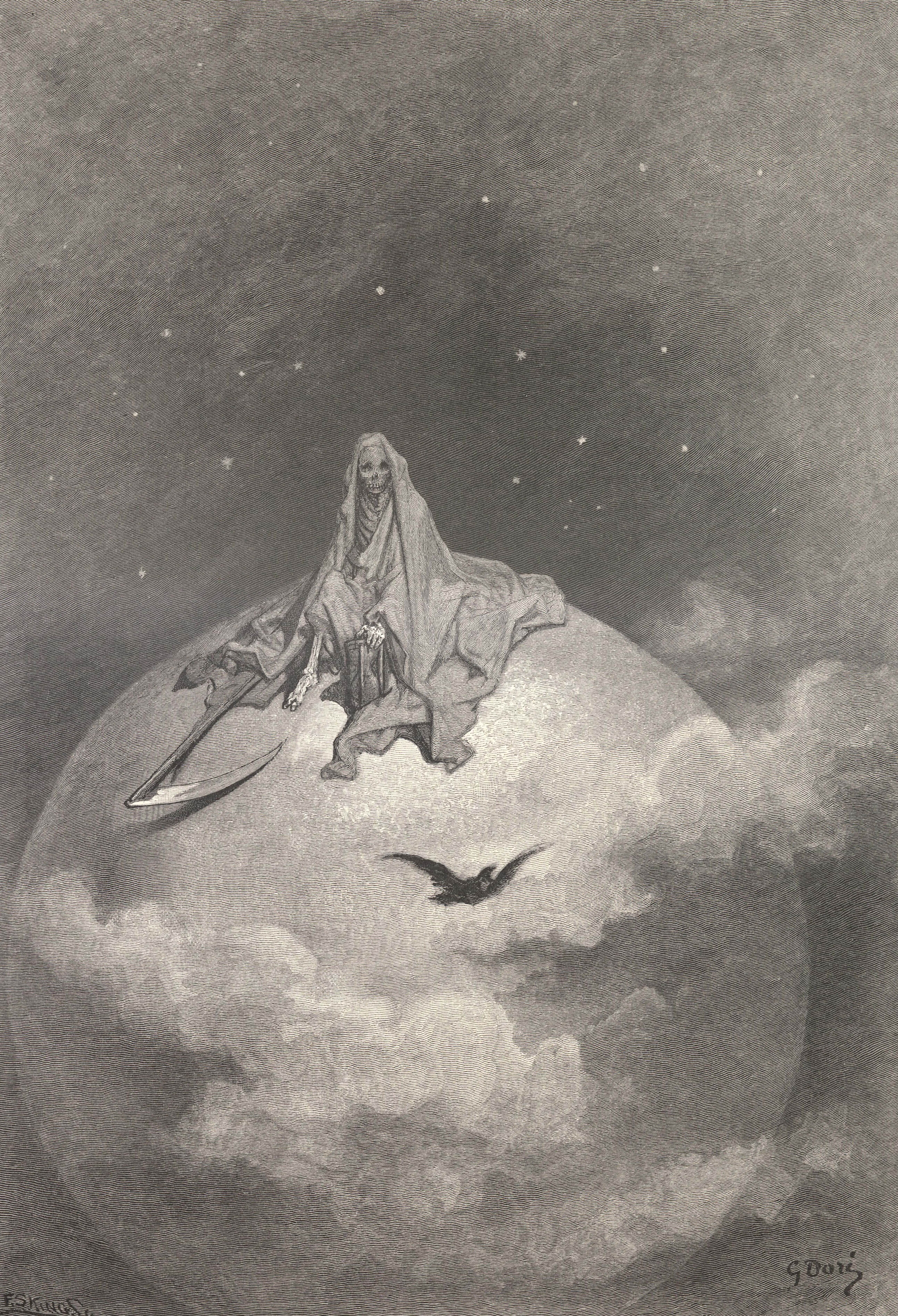 Illustration 11 of Edgar Allan Poe's Raven